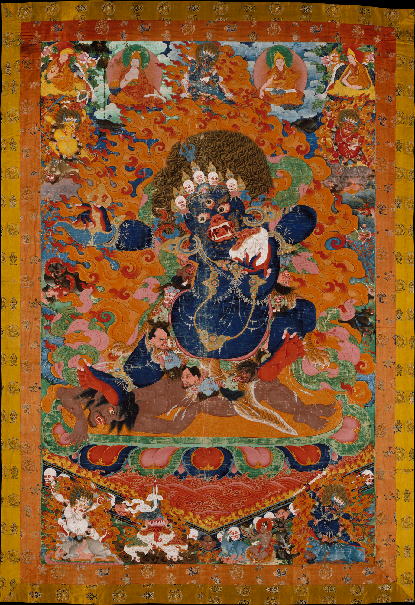 Yamantaka, Destroyer of the God of Death. Tibet, Distemper on cloth, 72 3/8 x 46 5/8 in. (183.8 x 118.4 cm). Yamantaka is a violent aspect of the Bodhisattva Manjushri, who assumes this form to vanquish Yama, the god of death. By defeating Yama, the cycle of rebirths (samsara) that prevents enlightenment is broken. Yamantaka, who shares many attributes with Mahakala, is identified by his blue skin and the array of attributes displayed here. He is encircled by five smaller manifestations, each a Yama-conqueror riding a buffalo. An inscription on the reverse indicates the work was commissioned in honor of the donor’s lama. Flanking the uppermost Yama-conqueror are two pairs of lamas, tentatively identified as the Panchen Lama (left) and Atisha accompanied by attending lamas.